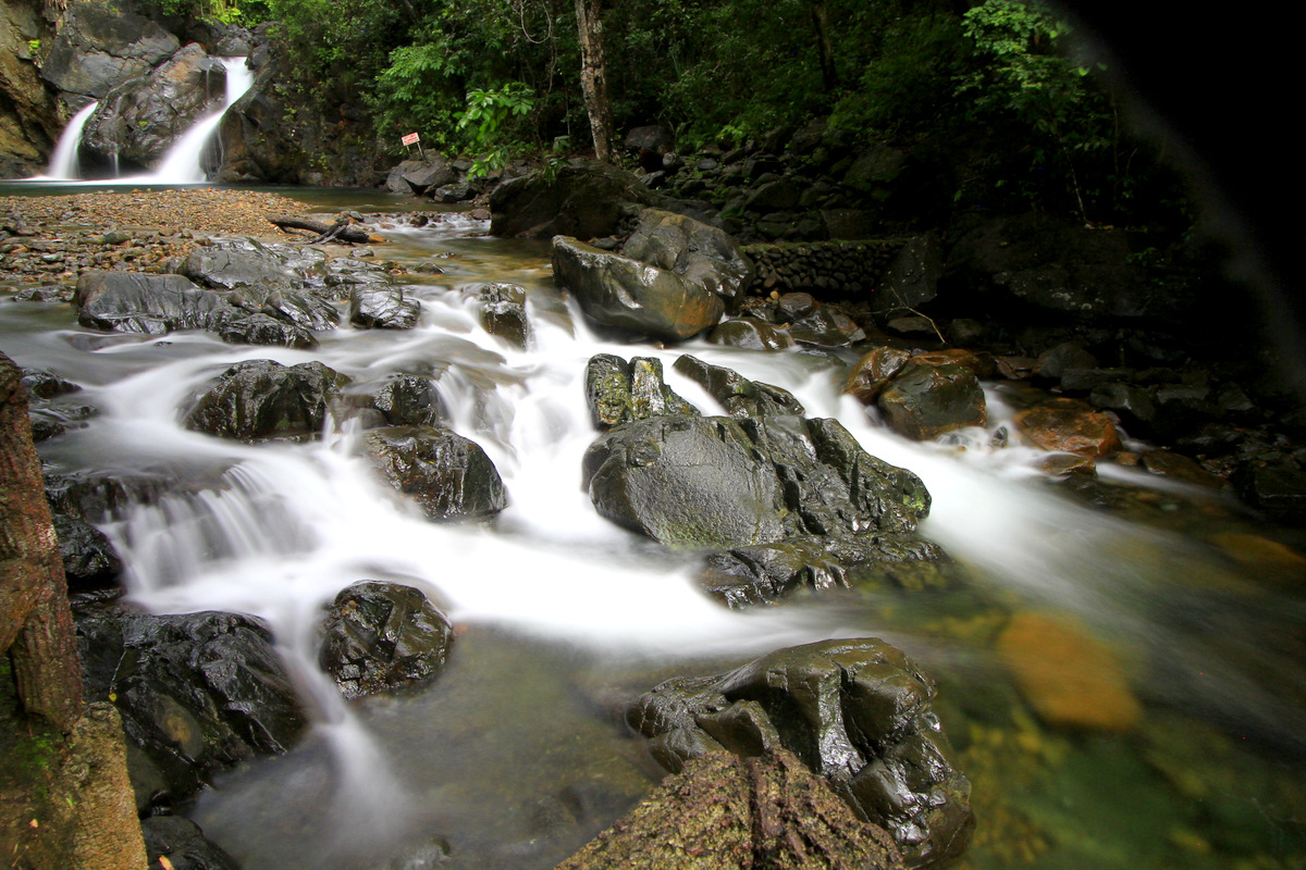 Estralla Falls in Narra, Palawan